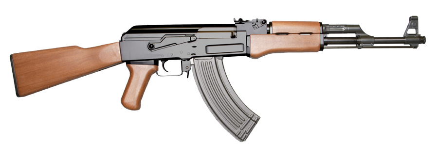 AK-47 Type 3A assault rifle